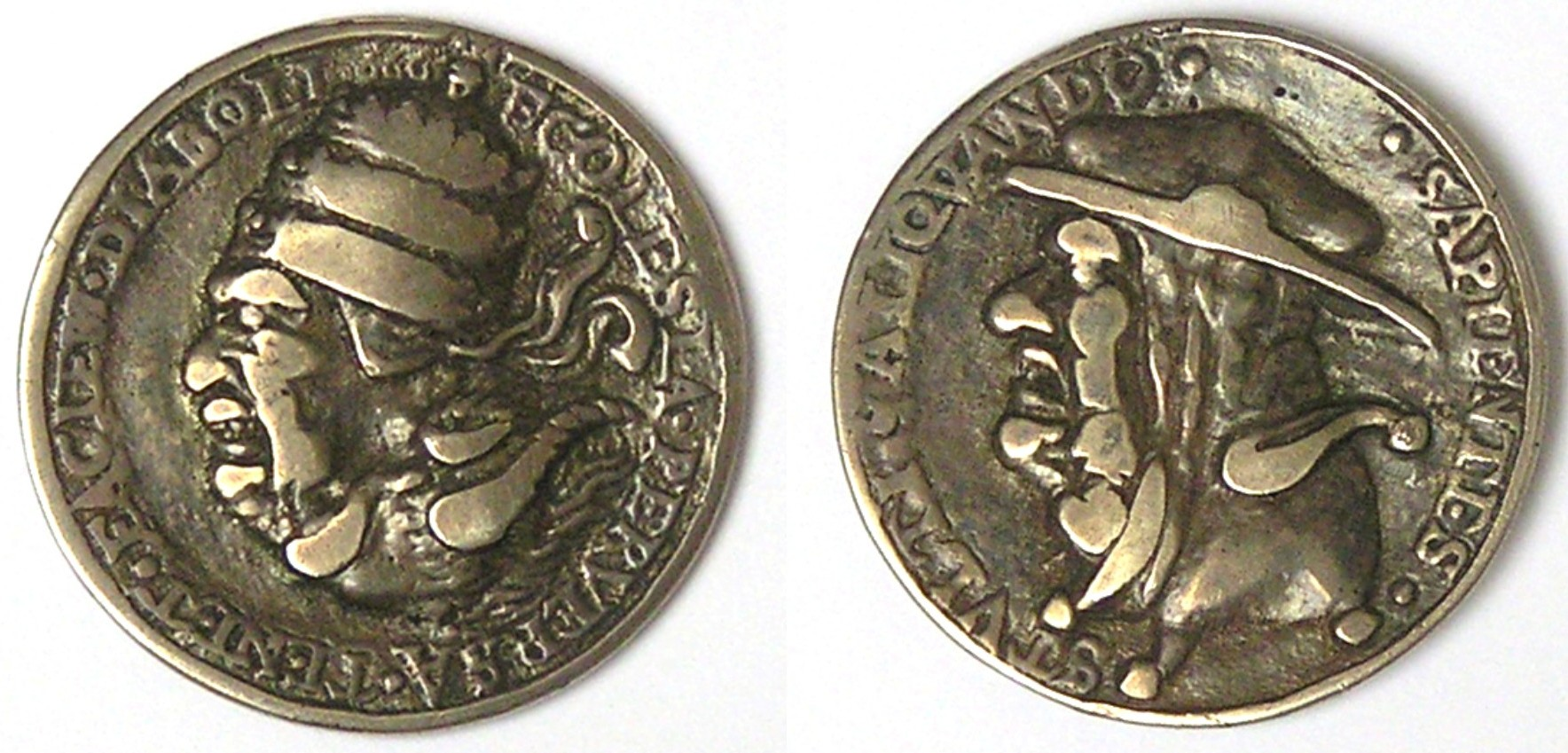 "The perverted church got the face of the devil". "Perversa" is a play of word, as it also means "completely return" (by 180°) "SAPIENTES STULTI ALIQUANDO"